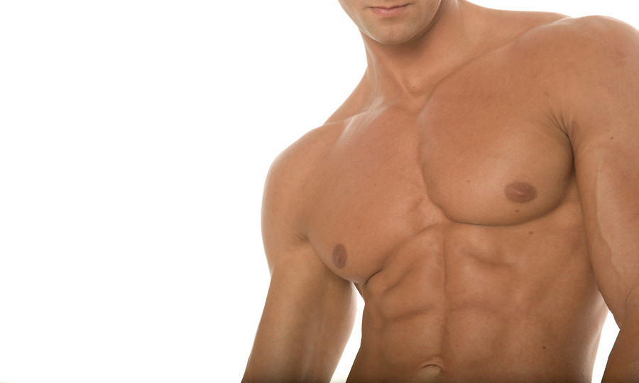 super muckis